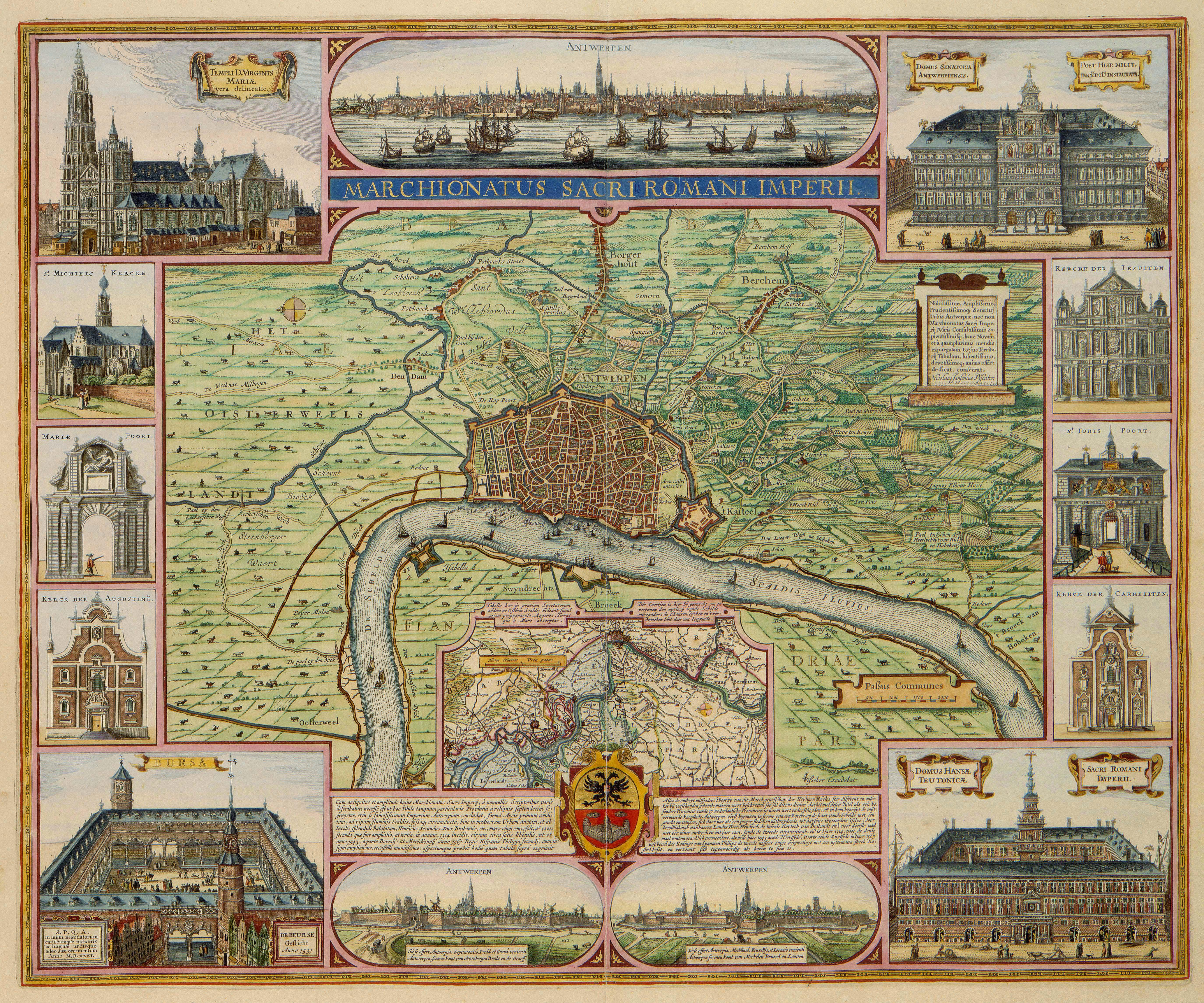 Antwerp, the march and the most important buildings. 1624.